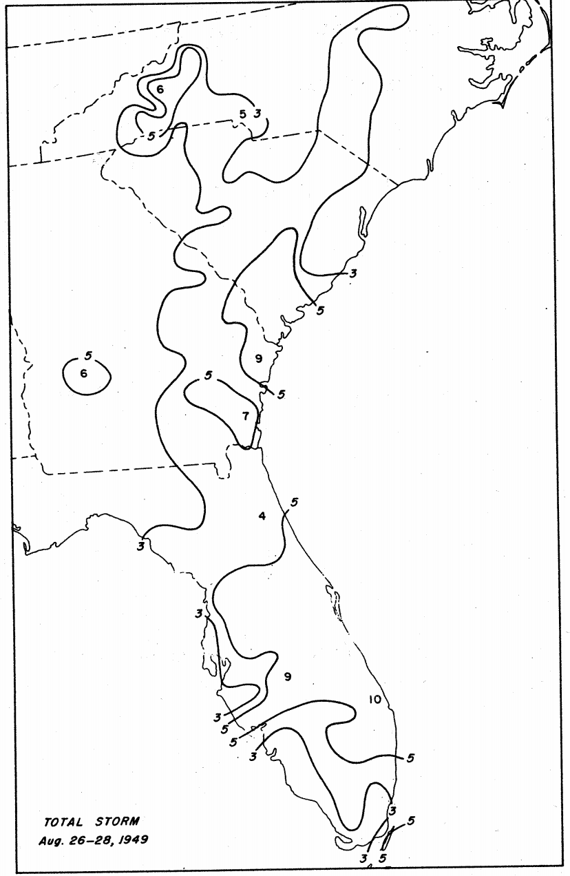 Rainfall from the 1949 Florida hurricane over the Southeastern United States.